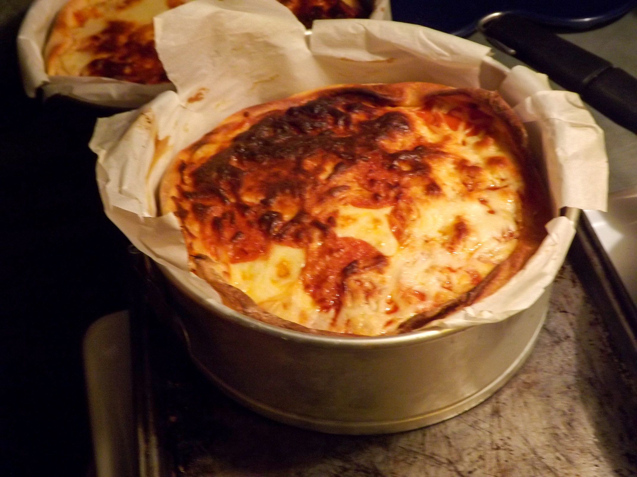 Pizza cake in pan, Windsor, Ontario.jpg